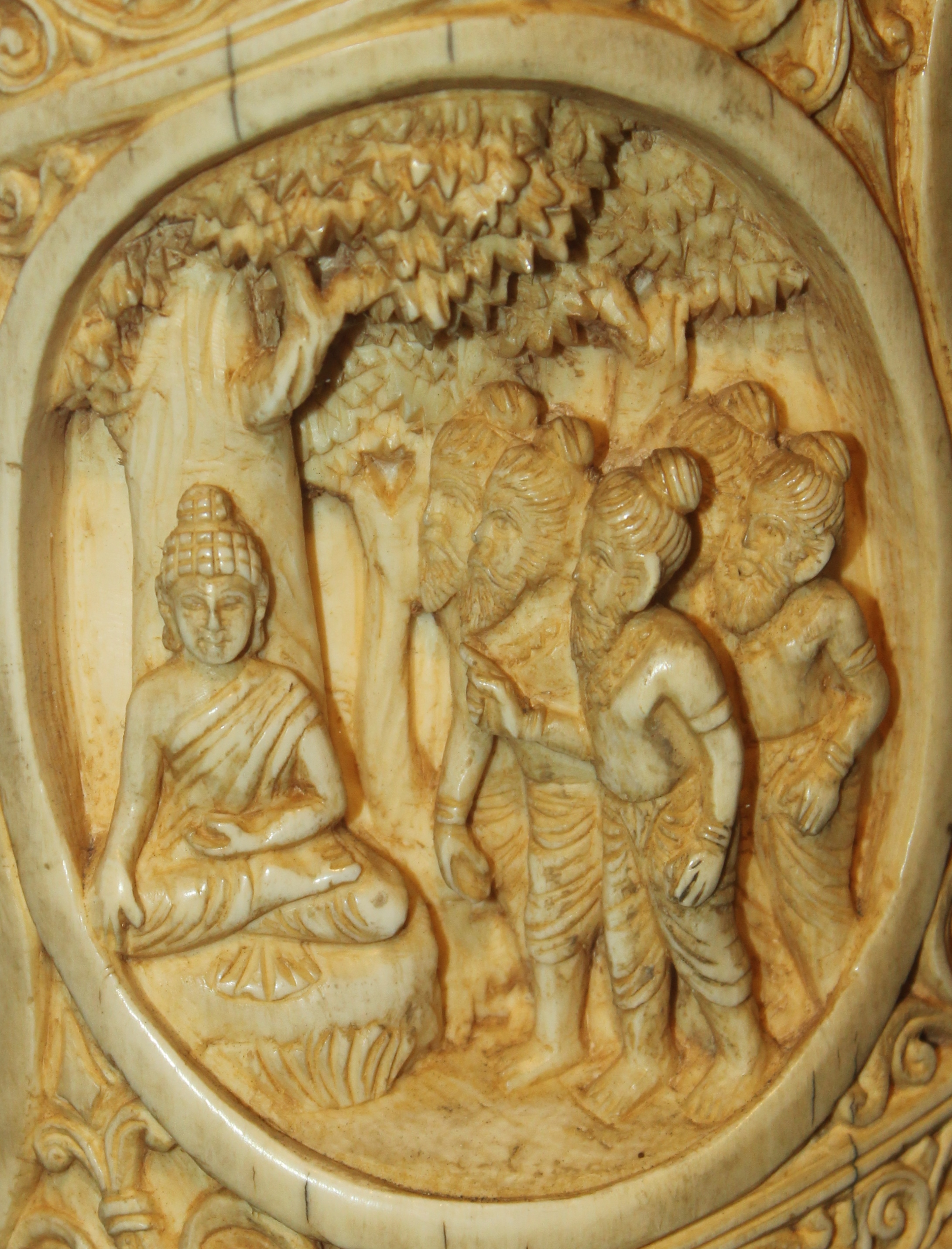 Roundel 22: Scene 3 – Five saintly persons visit Siddhartha while he meditates